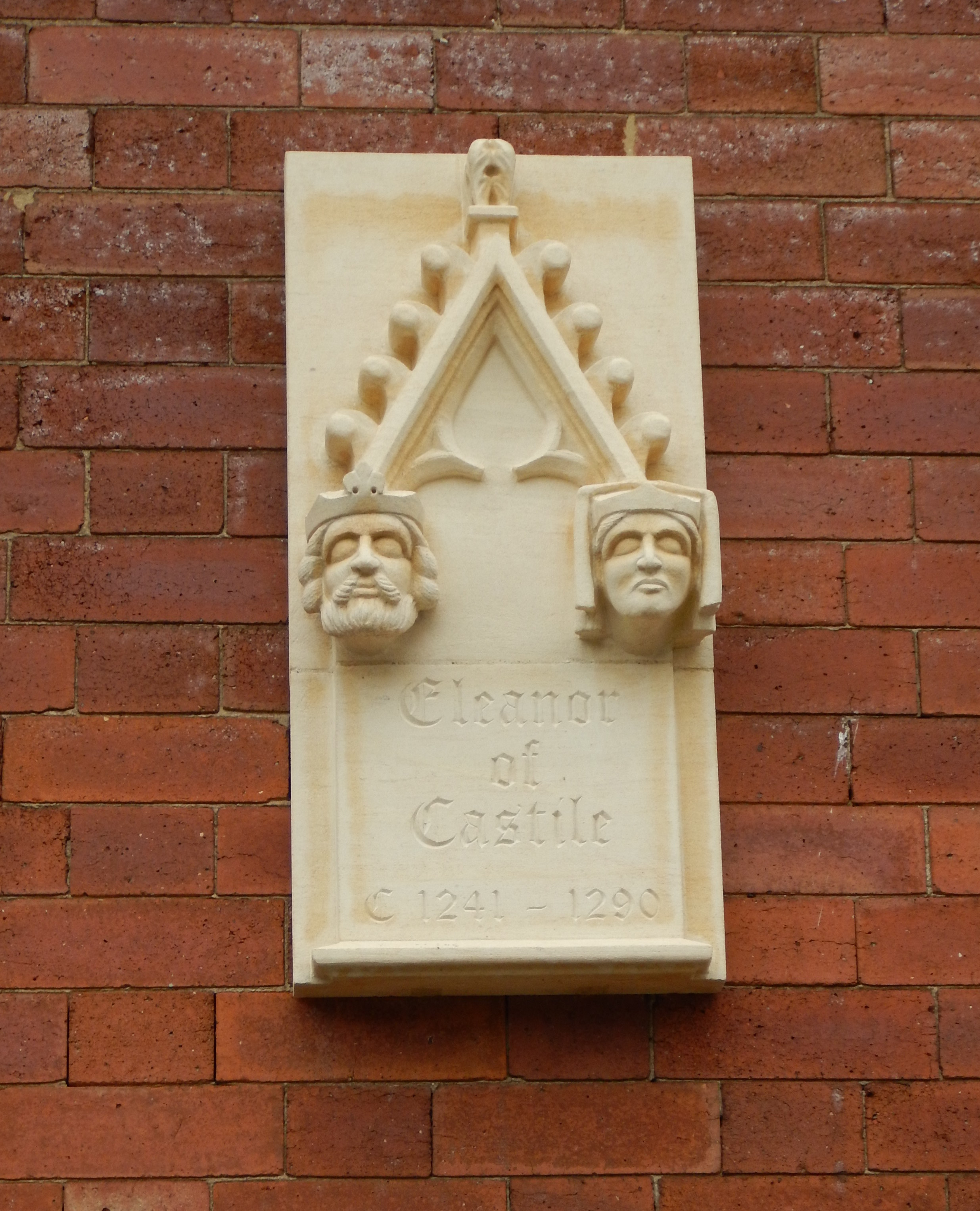 Memorial plaque to Eleanor cross, Grantham Guildhall.